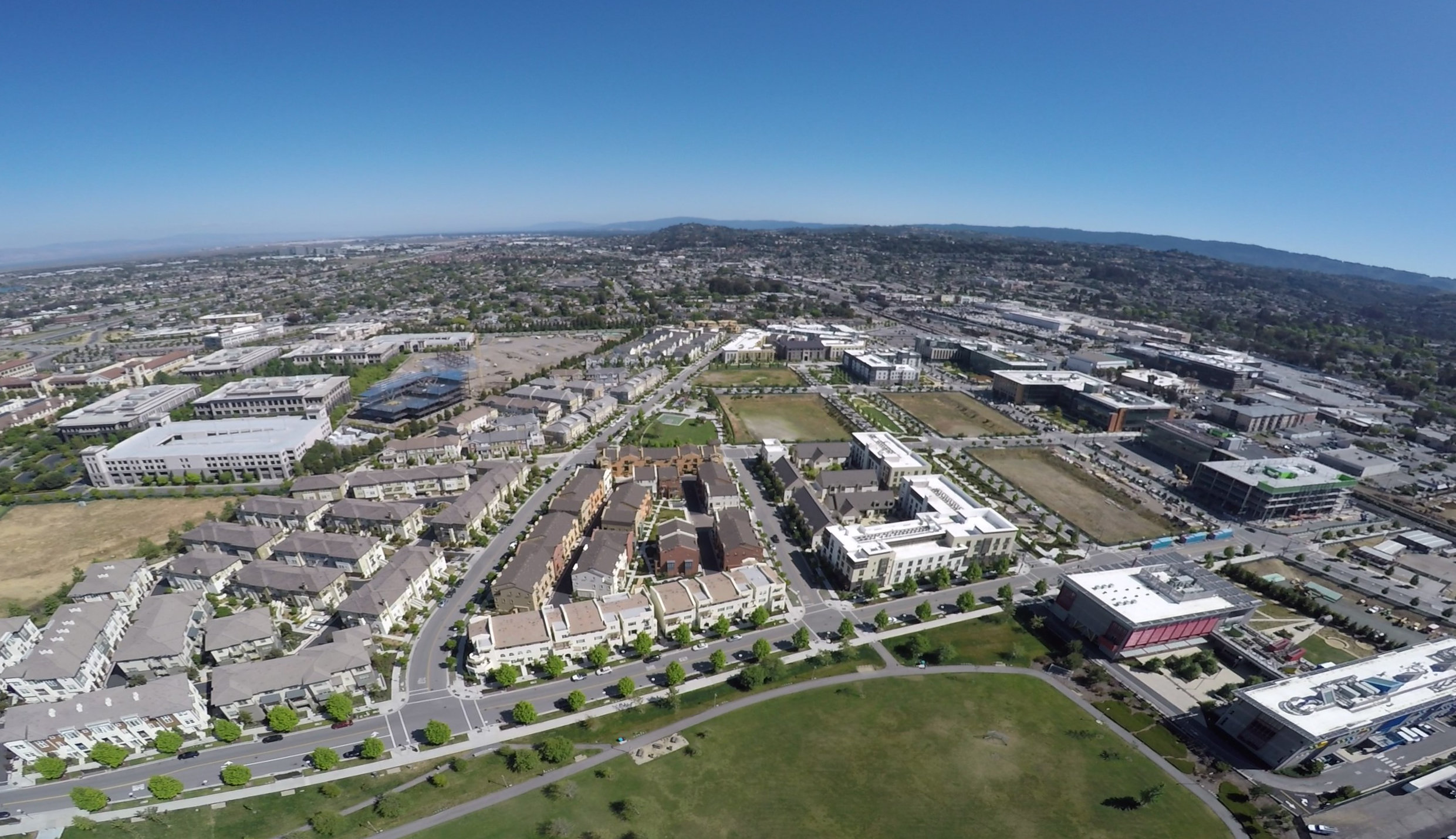 View of Bay Meadows looking south via drone above Bay Meadows Community Park.